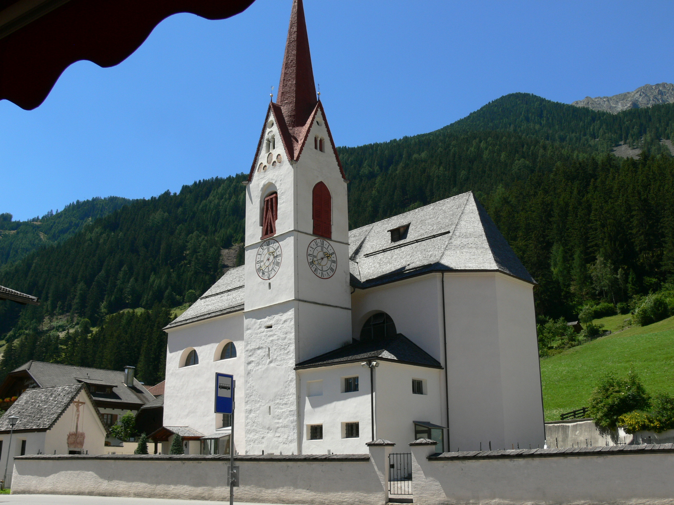 Antholz Mittertal - parish church of Saint George ( 1794 )